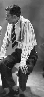 José Mazzili- actor